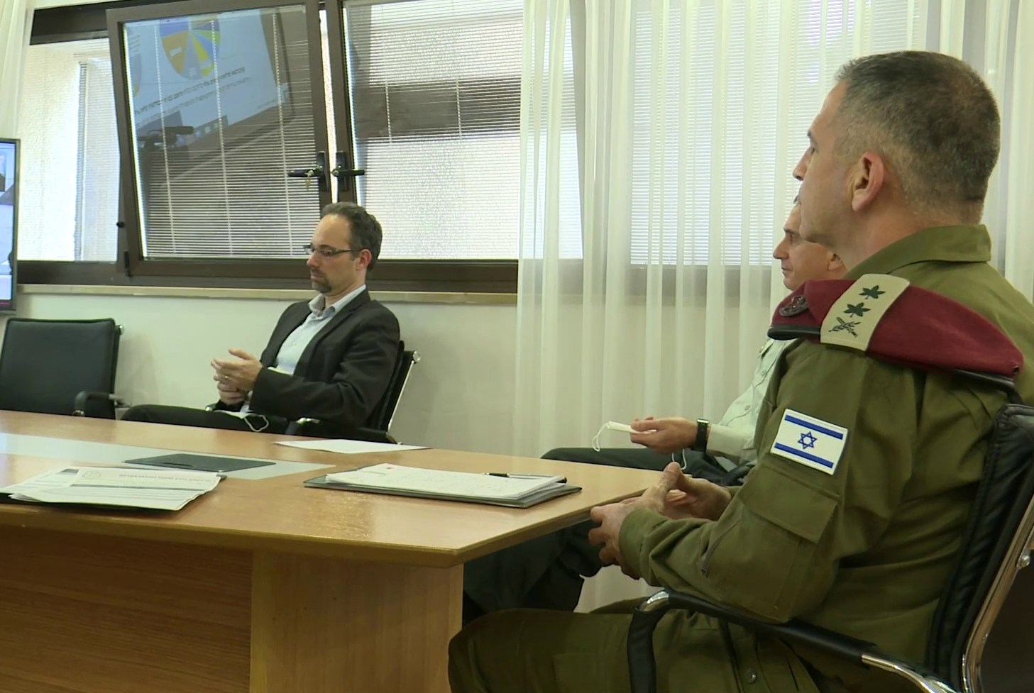 Depicted people: Ran Blitzer and Aviv Kochavi Depicted place: Sheba Medical Center